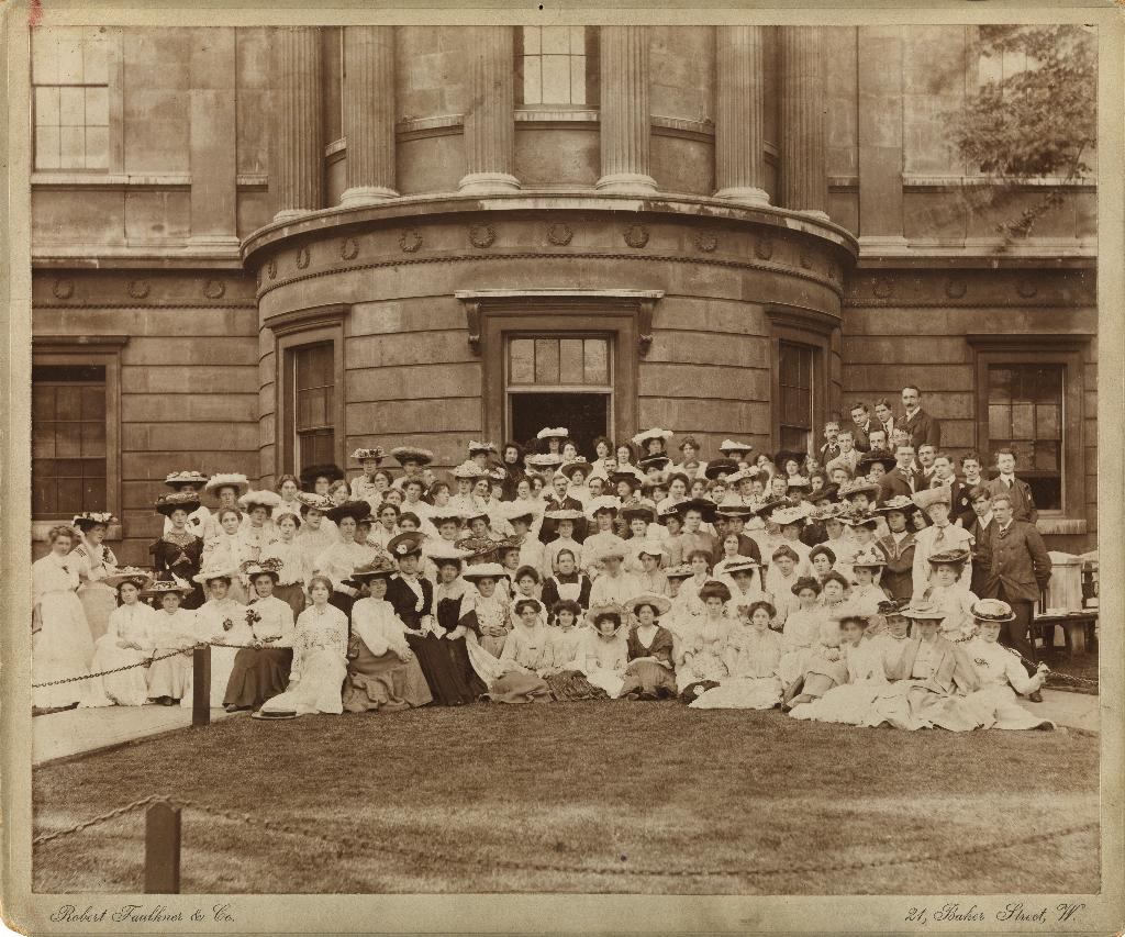 This is the earliest unofficial ‘class photo’, taken after the annual Slade Strawberry picnic on 23 June 1905. It likely represents only some of the students studying at the Slade at the time.